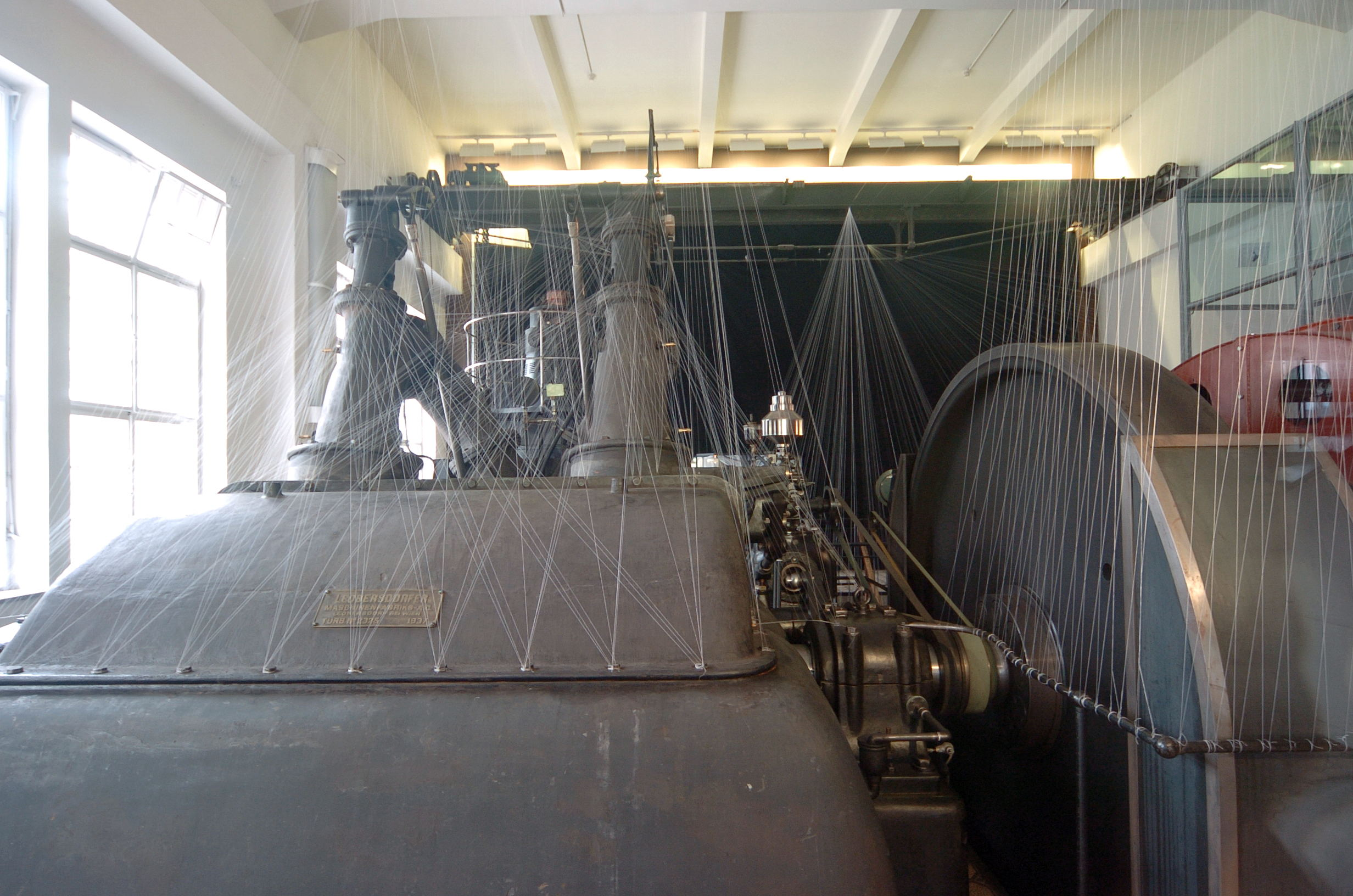 Generator at the hydroelectric power-plant (designed by Franz Baumgartner) in Saag #15, municipality Techelsberg, district Klagenfurt Land, Carinthia, Austria, EU